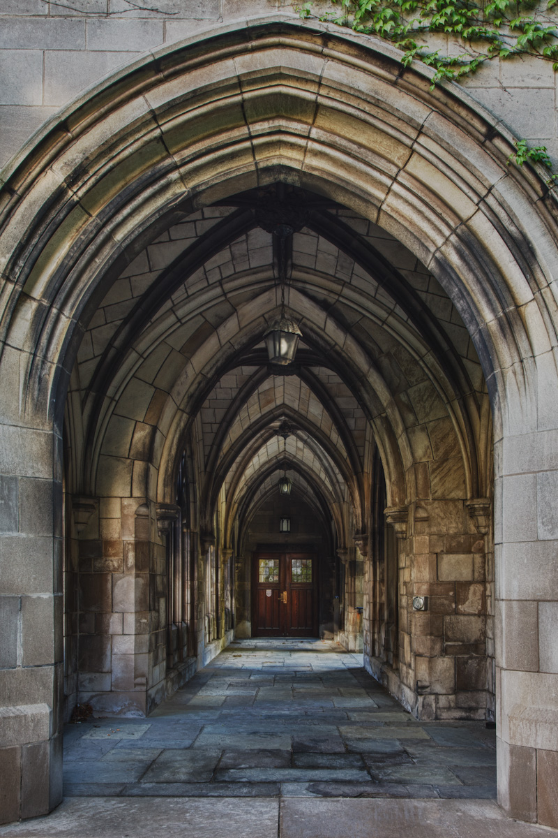 An Ached corridor that runs along Bond Chapel.. I love the many repeating patterns of Arches that you can find in buildings all over the campus.